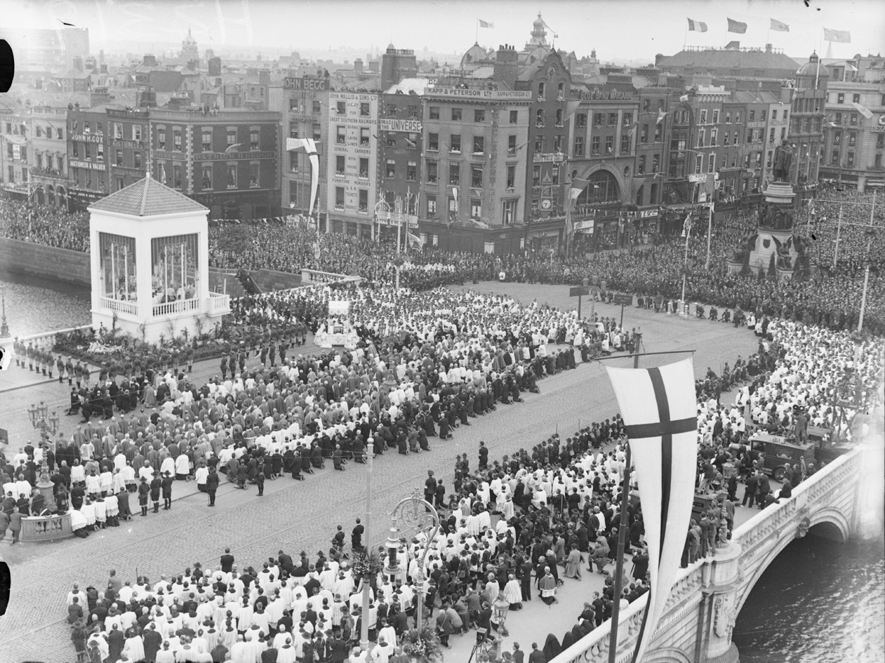 This amazing scene is the closing ceremony of the Eucharistic Congress that was held in Dublin in June 1932. Earlier in the day, there had been a Solemn Pontifical High Mass at 1 p.m. in the Phoenix Park, with a special choir of 500 men and boys. A procession estimated at one million people, described as "miles of praying people", then made its way to O'Connell Bridge. The Service of Benediction and Hymns on O'Connell Bridge took place around 5.30 p.m., and the Papal Legate Cardinal Lorenzo Lauri gave his final address of the Eucharistic Congress from this location. Date: Sunday, 26 June 1932 NLI Ref.: INDH2319